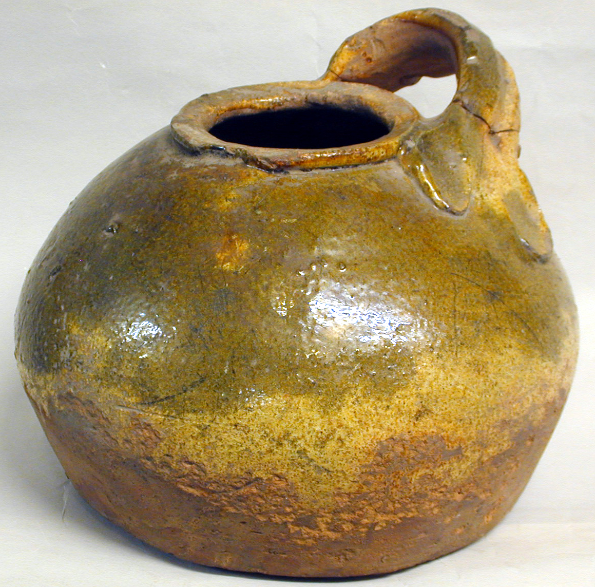 Humber ware chamber pot. Greenish glaze on upper two thirds of body. Internal deposit.